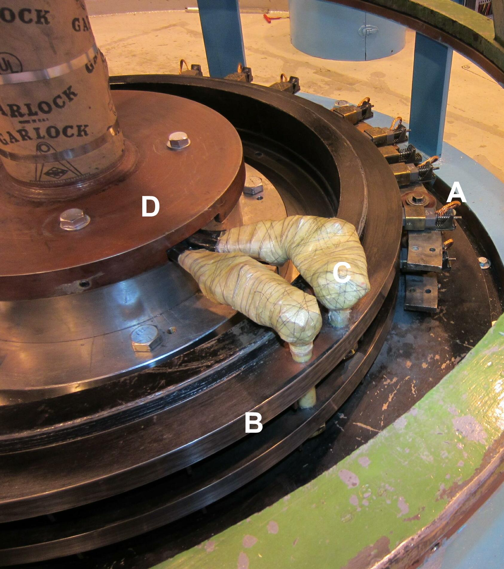 Slip rings on a hydroelectric generator.These rings carry 500 amps at around 150 volts to the rotating field winding of the generator. The graphite brushes slide on the steel ring, maintaining contact under pressure from the springs. A stranded copper wire connects each brush to the supply ciruit. Two sets of brushes and two rings are used for the field circuit. A - spring-loaded stationary graphite brushes B - rotating steel slip ring C - insulated connections to generator field winding D - top end of generator shaft Island Falls Generating Station, Saskatchwean, January 14, 2012